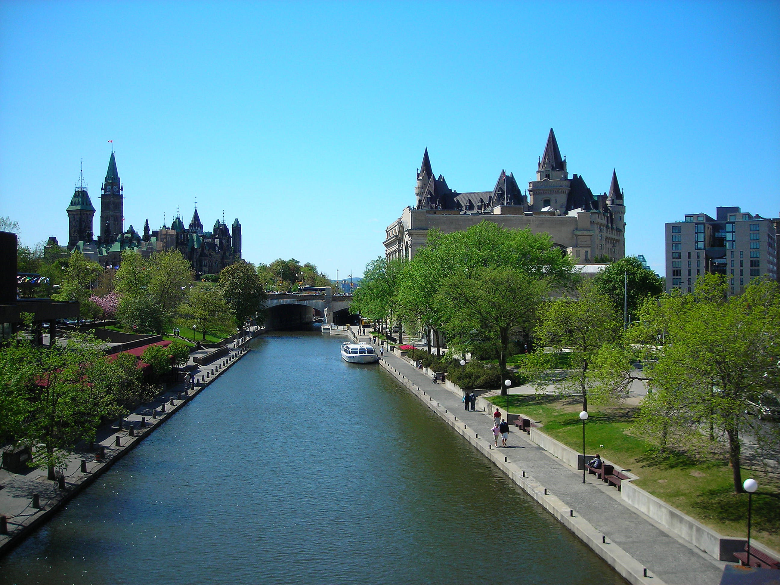 Rideau Canal approaching Parliament Hill